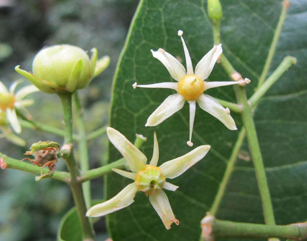 Flowers of Acronychia pedunculata at Udawattakele Forest, Kandy, Sri Lanka.